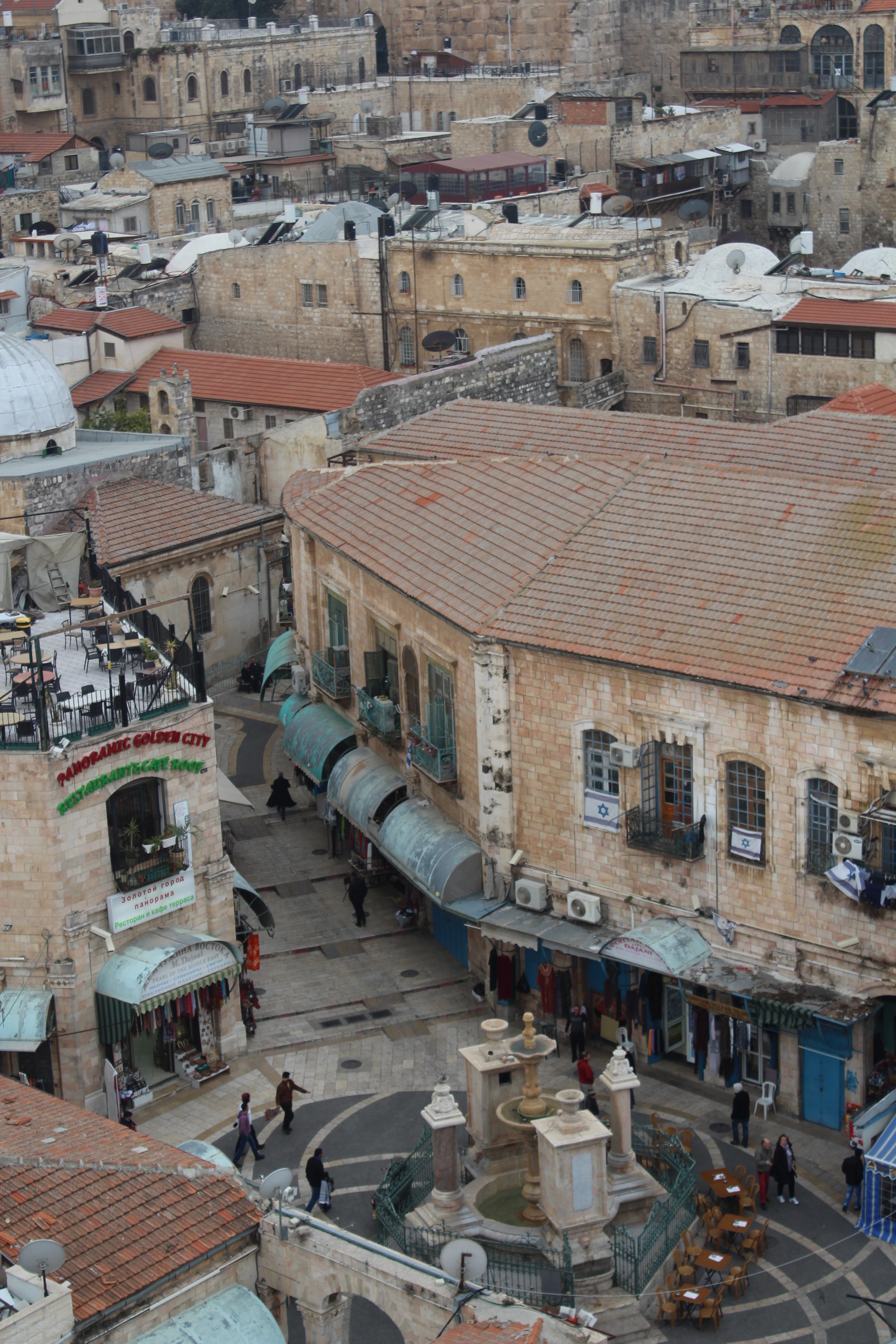 View of the old city of Jerusalem, as seen from the bell tower of the Lutheran Church of the Redeemer